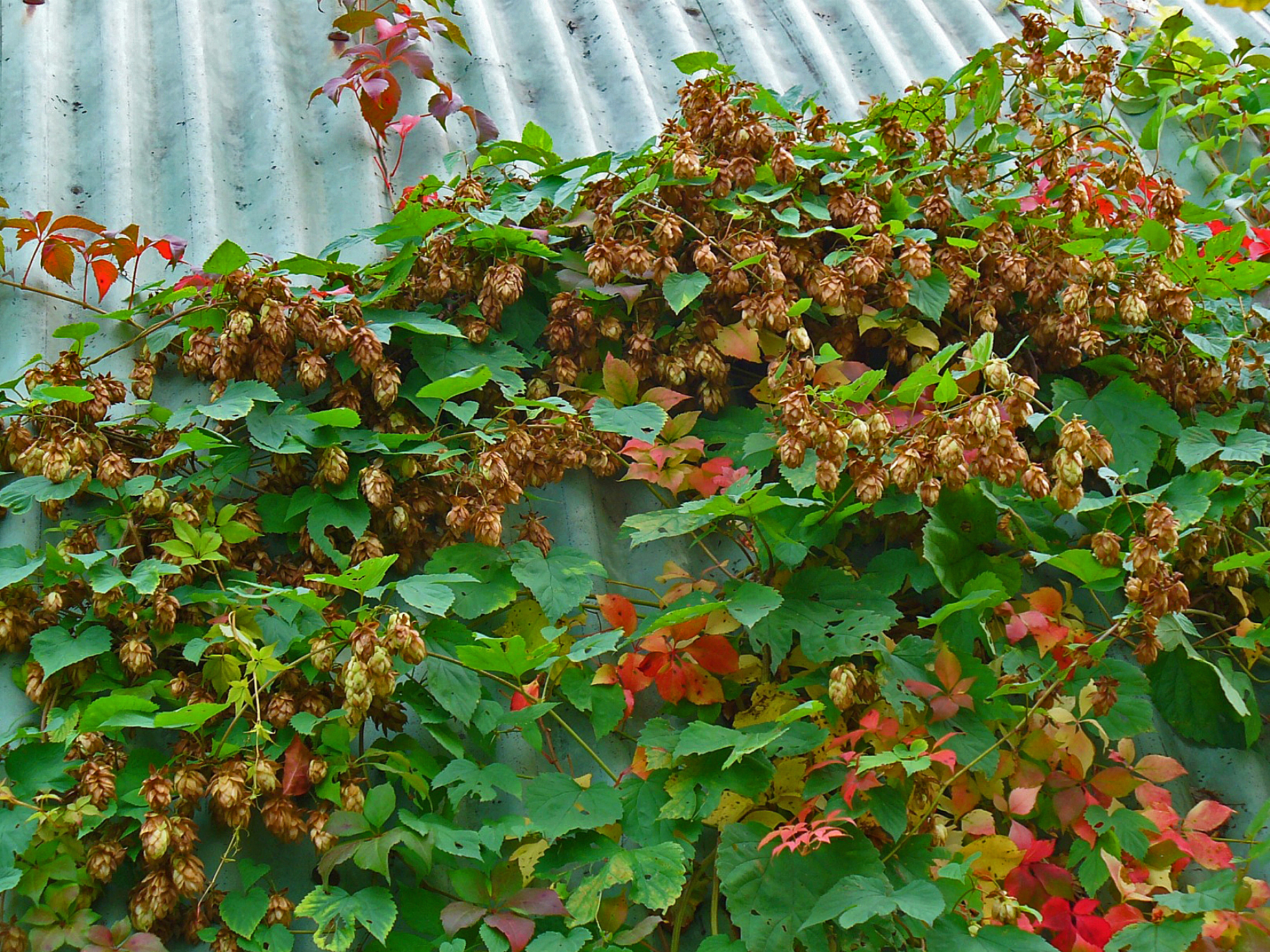 Common Hop, ripe infrutescences; Stutensee, Germany.